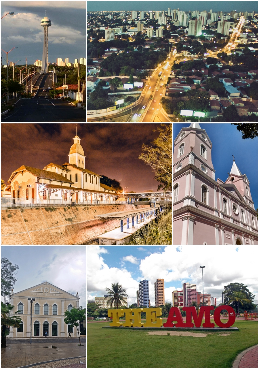 Images of Teresina, Brazil.